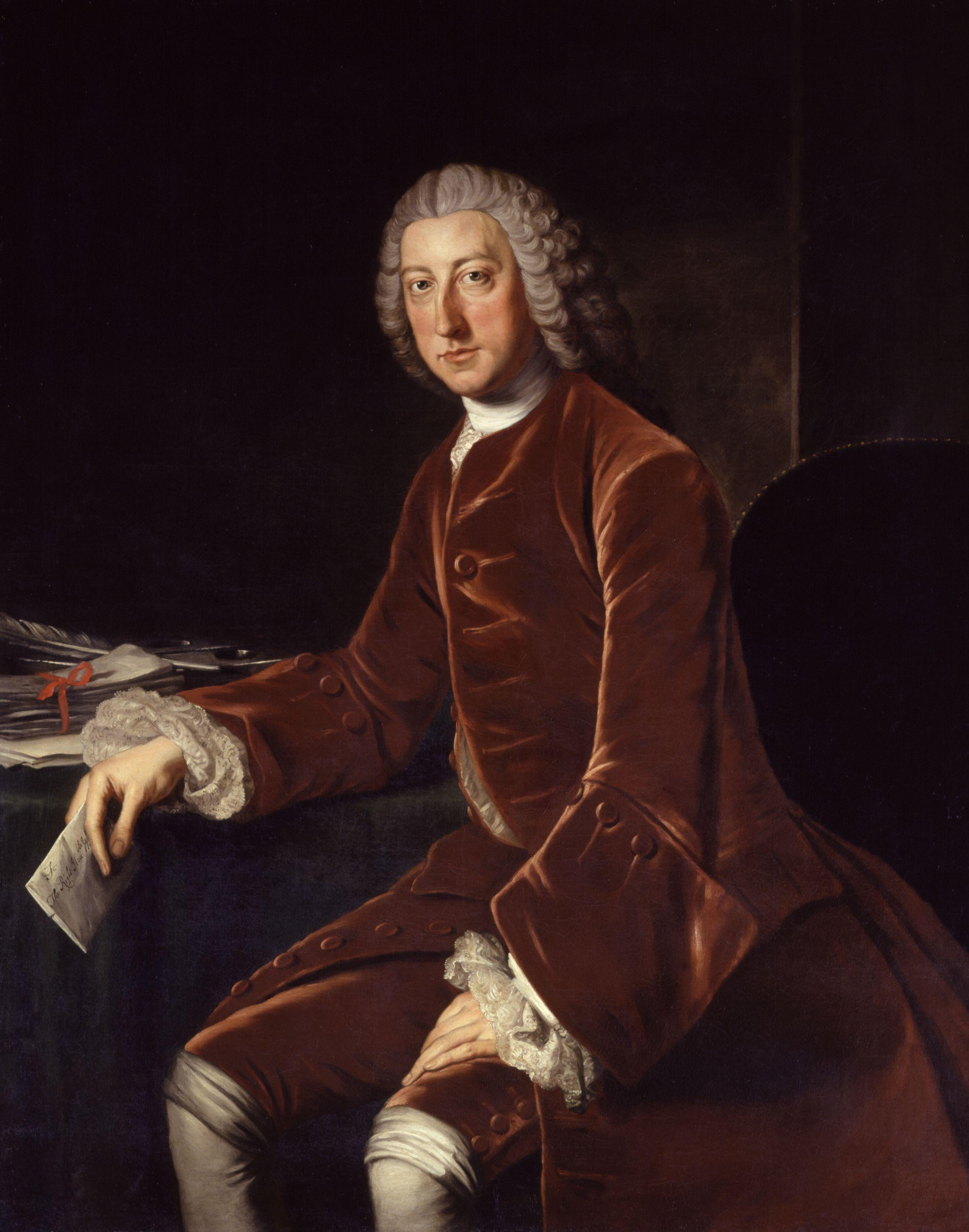 Portrait of the British statesman William Pitt, 1st Earl of Chatham (1708–1778), at three-quarter length, grey wig falling behind shoulders; rich brown velvet suit, white cravat, shirt and wrist ruffles; on the table an inkstand, pen and papers, a letter in his right hand; brown interior background; lit from left.